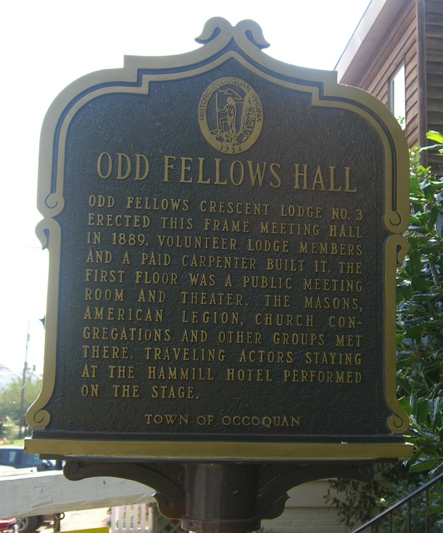 Odd Fellows Crescent Lodge No. 3 erected a frame meeting hall in 1889. Volunteer Lodge members and a paid carpenter built it. The first floor was a public meeting room and theater. The Masons, American Legion, church congregations and other groups met there. Traveling actors staying at the Hammill Hotel performed on the stage.